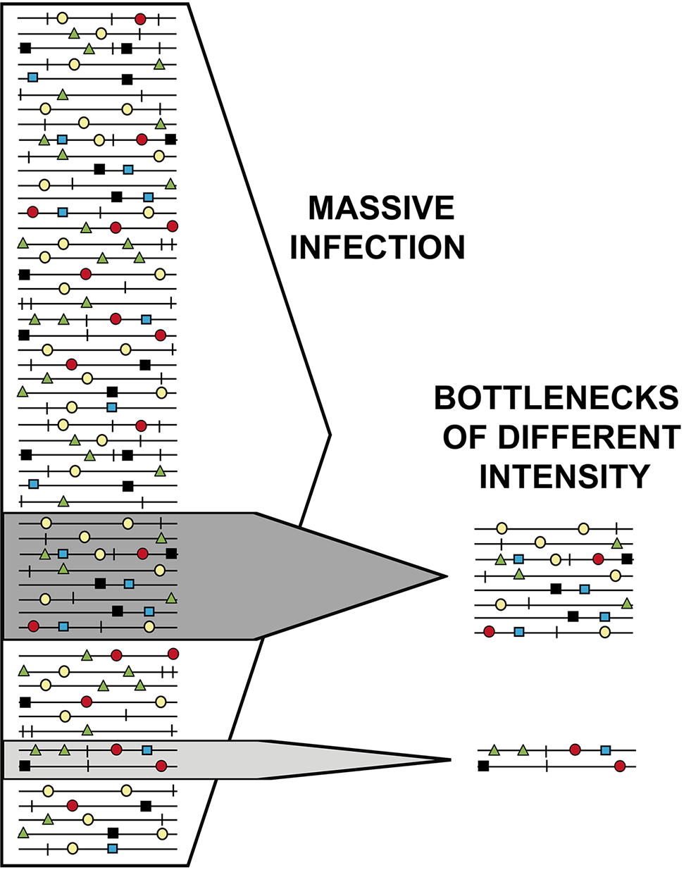 Illustration of bottleneck of different severity, defined by the different circles inserted in the entire population (large rectangle) and the outer rectangles. Symbols represent mutant classes. Taken from[1], with permission from the American Society from Microbiology, Washington DC, USA.